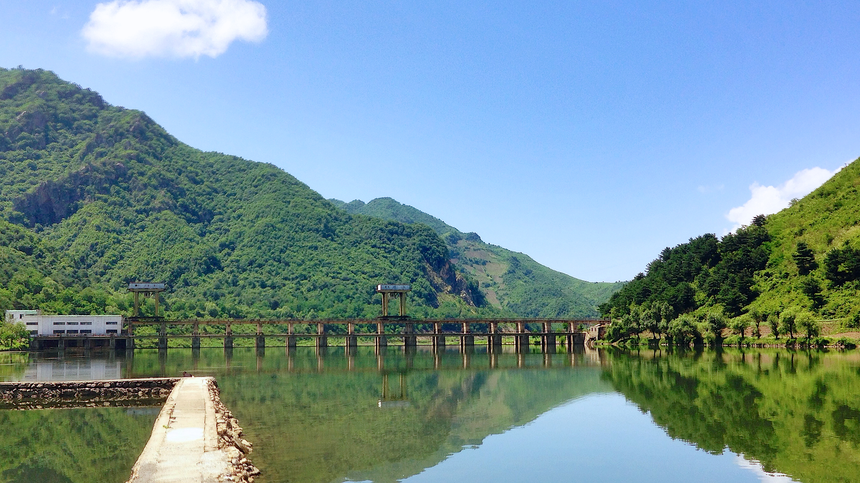 Located on a lake just to the south west of Wonsan DPRK this has to be one of the most beautiful places in Korea.